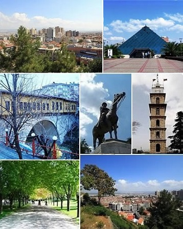 Collage of Bursa